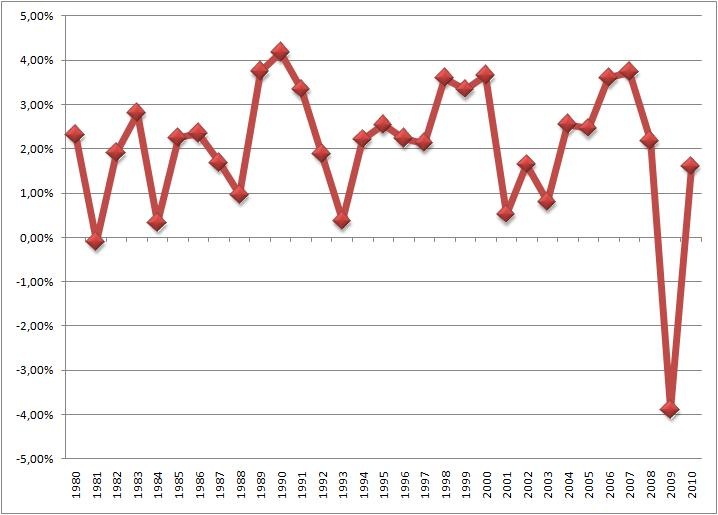 GDP growht rate of Austria (1980-2010)